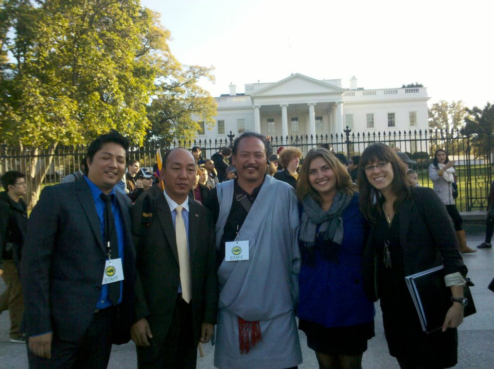 TYC and SFT at the White House for the Global Day of Action to Stand Up for Tibet.